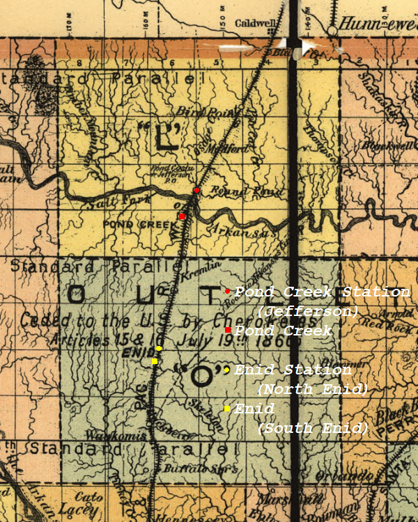 Map is annotated detail of 1894 map from the Library of Congress and is in the public domain.